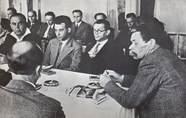 Gorkiy and Mumtaz Watermark from image: Fotobank